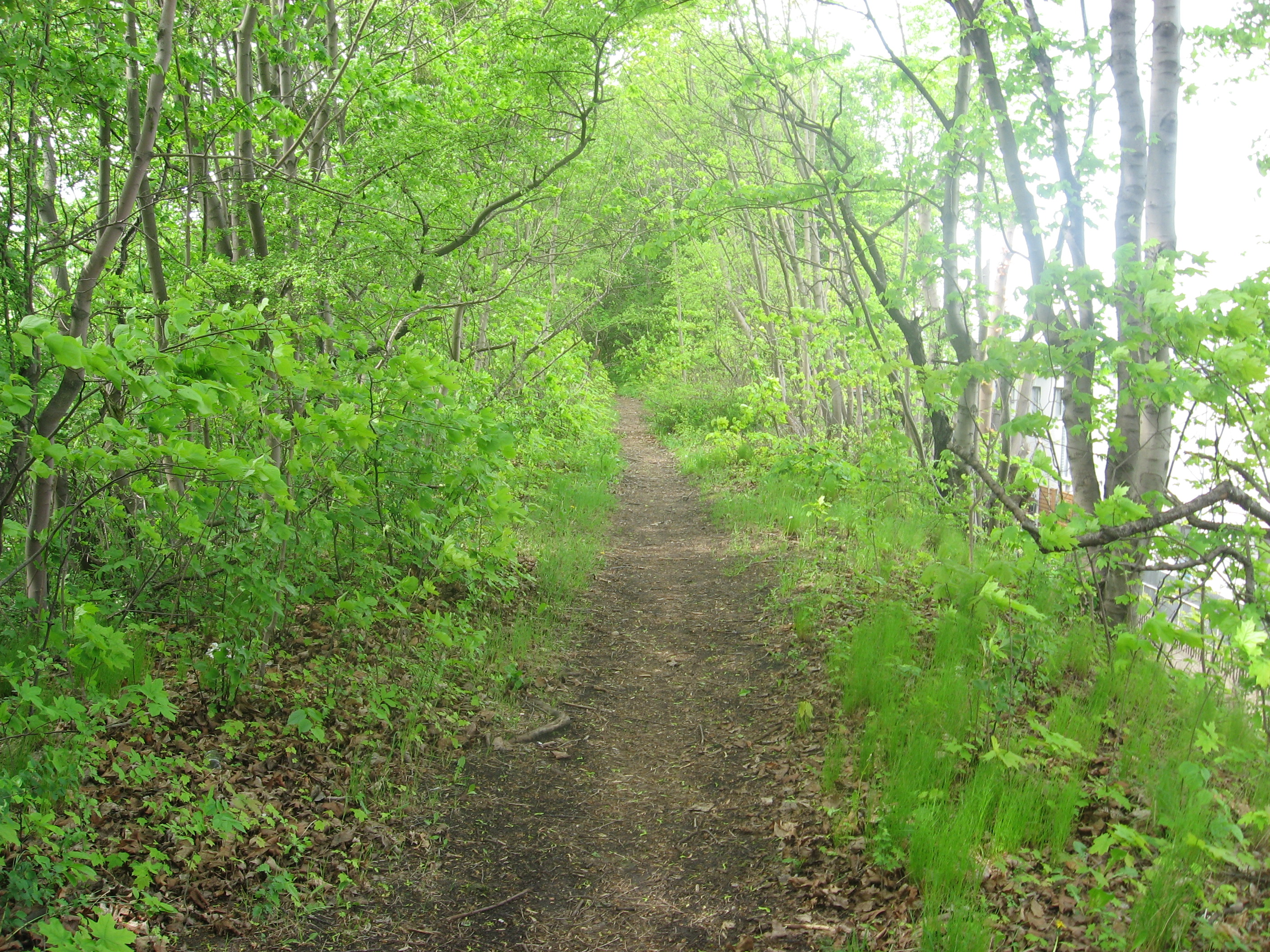 Railway line Gdańsk Wrzeszcz-Stara Piła.